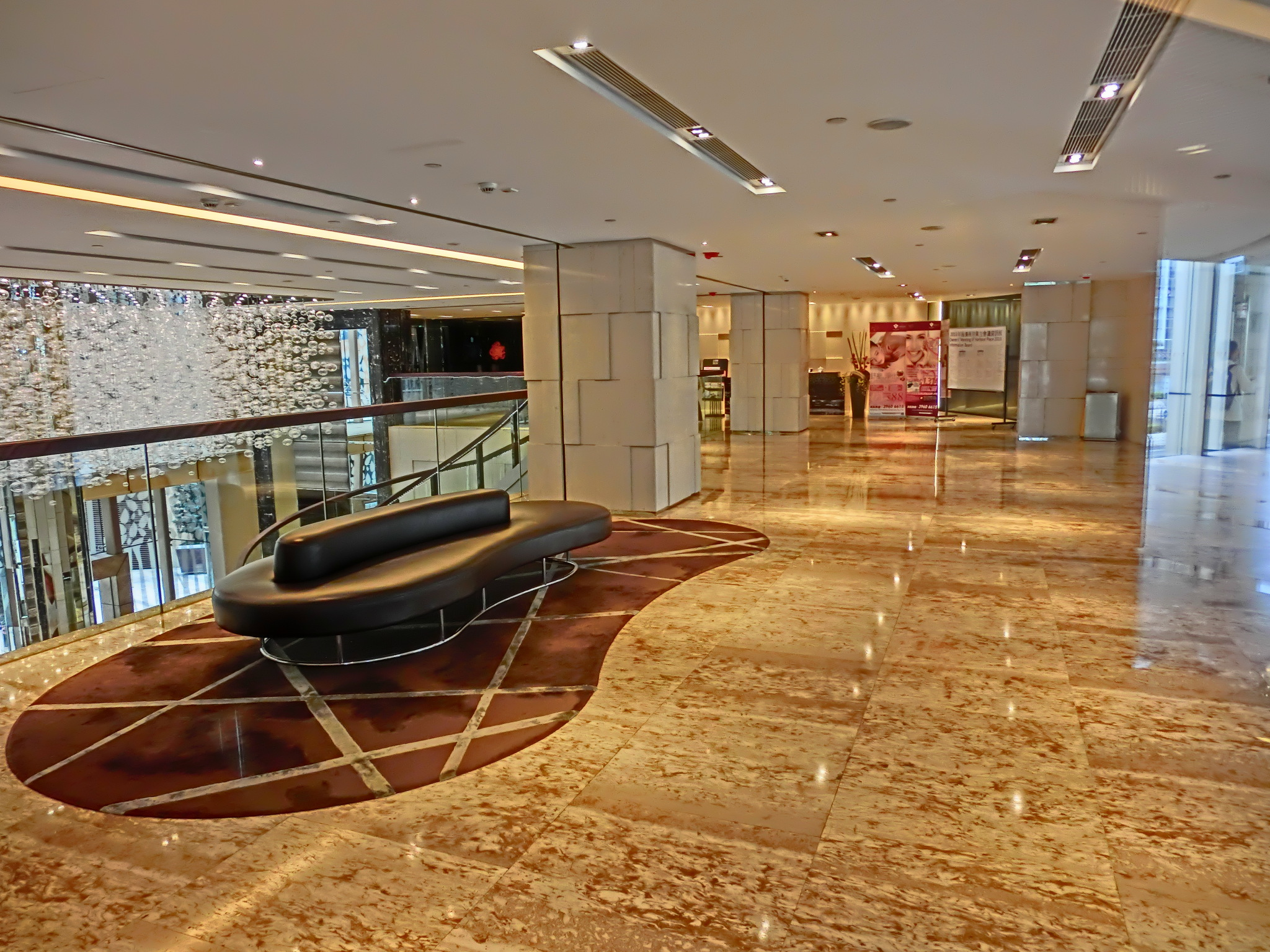 紅磡海濱南岸, Harbour Place, Yan Yun Street, Hung Hom, Hong Kong